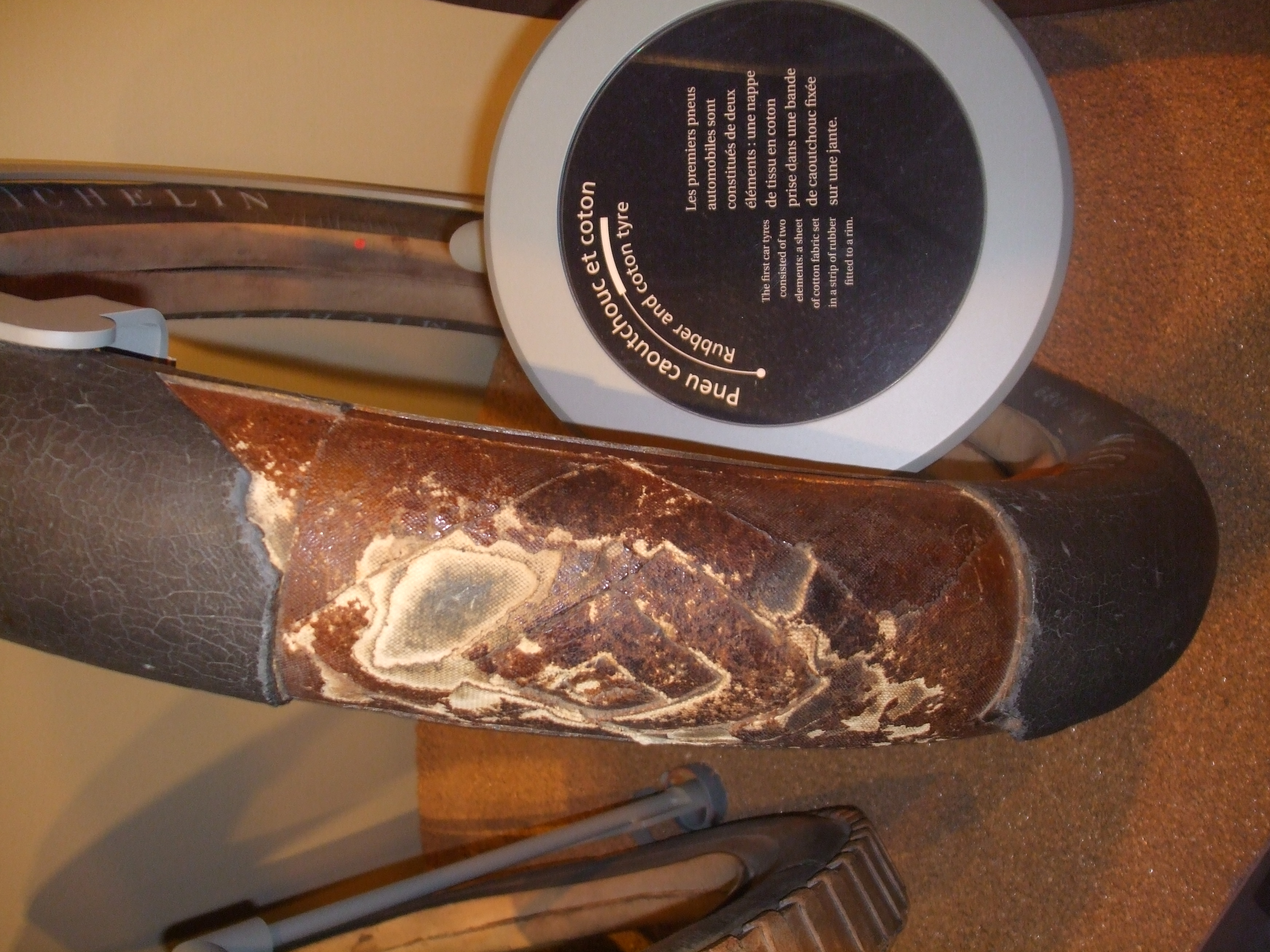 Rotated the original image to better fit the layout of the page.